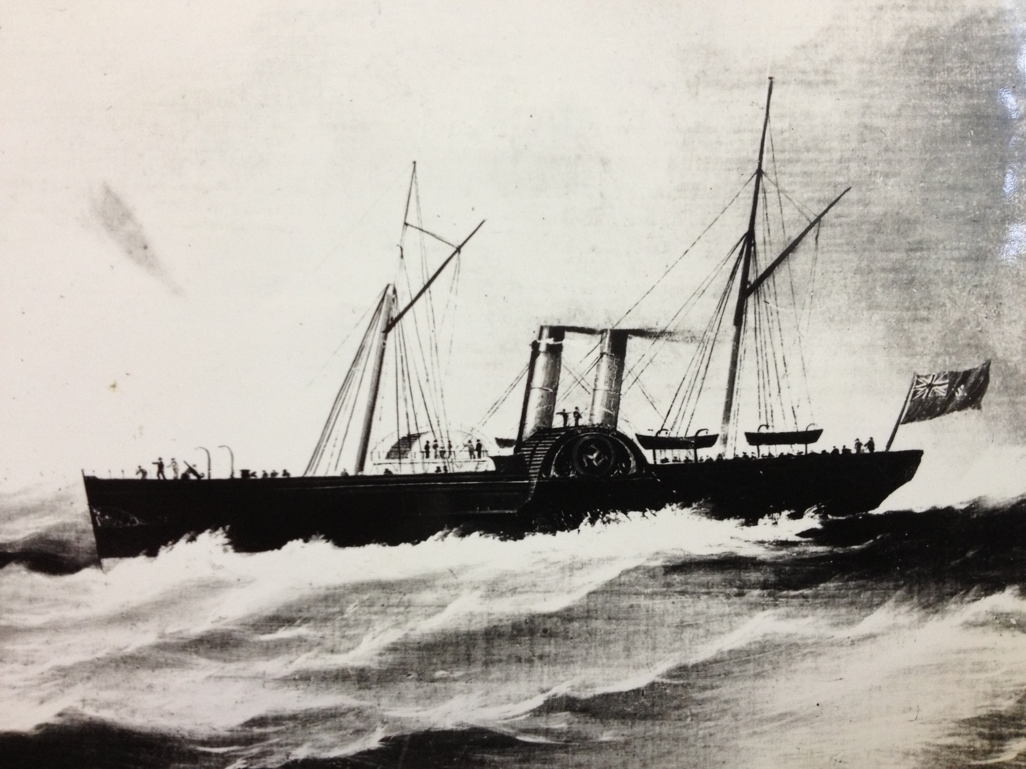 A painting of Isle of Man Steam Packet Company paddle-steamer, Douglas (I).